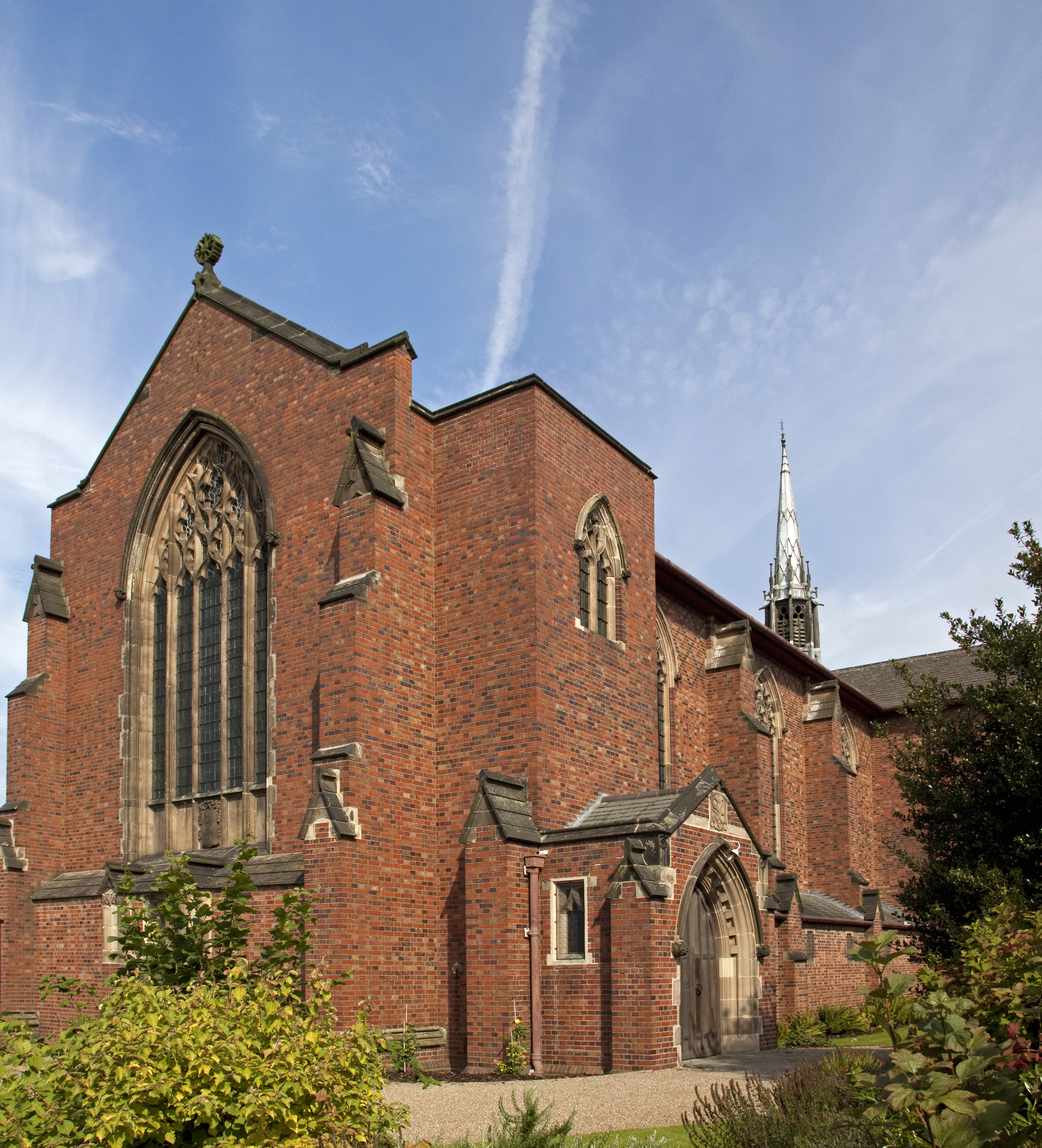 The Parish Church of St Andrew, Oxhill Road, Birmingham. Built between 1907-1909. This was one of the churches designed by William Henry Bidlake, a leading figure of the Arts and Crafts movement in Birmingham and Director of the School of Architecture at Birmingham School of Art from 1919 until 1924.